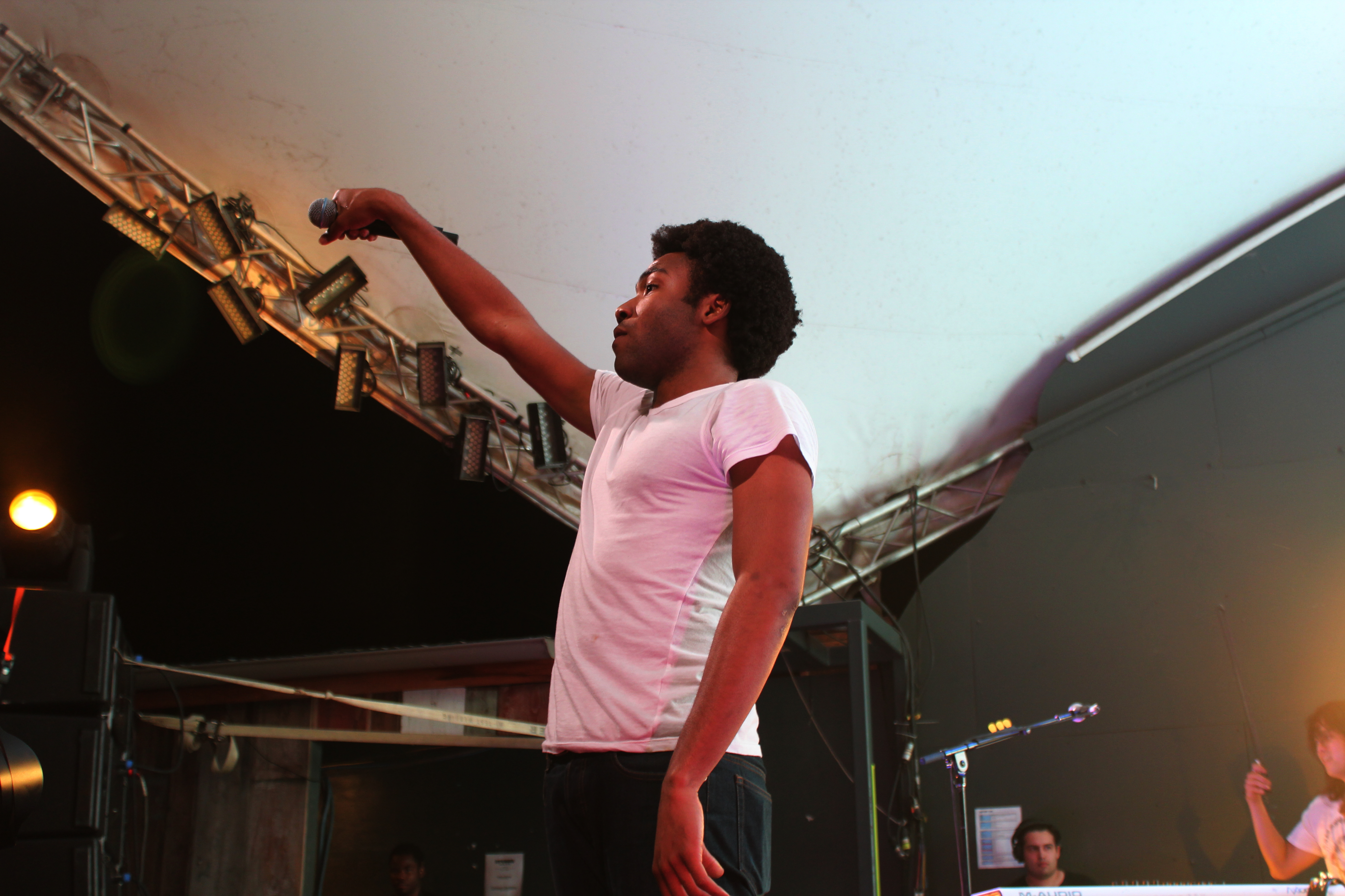 Childish Gambino on stage in 2012.